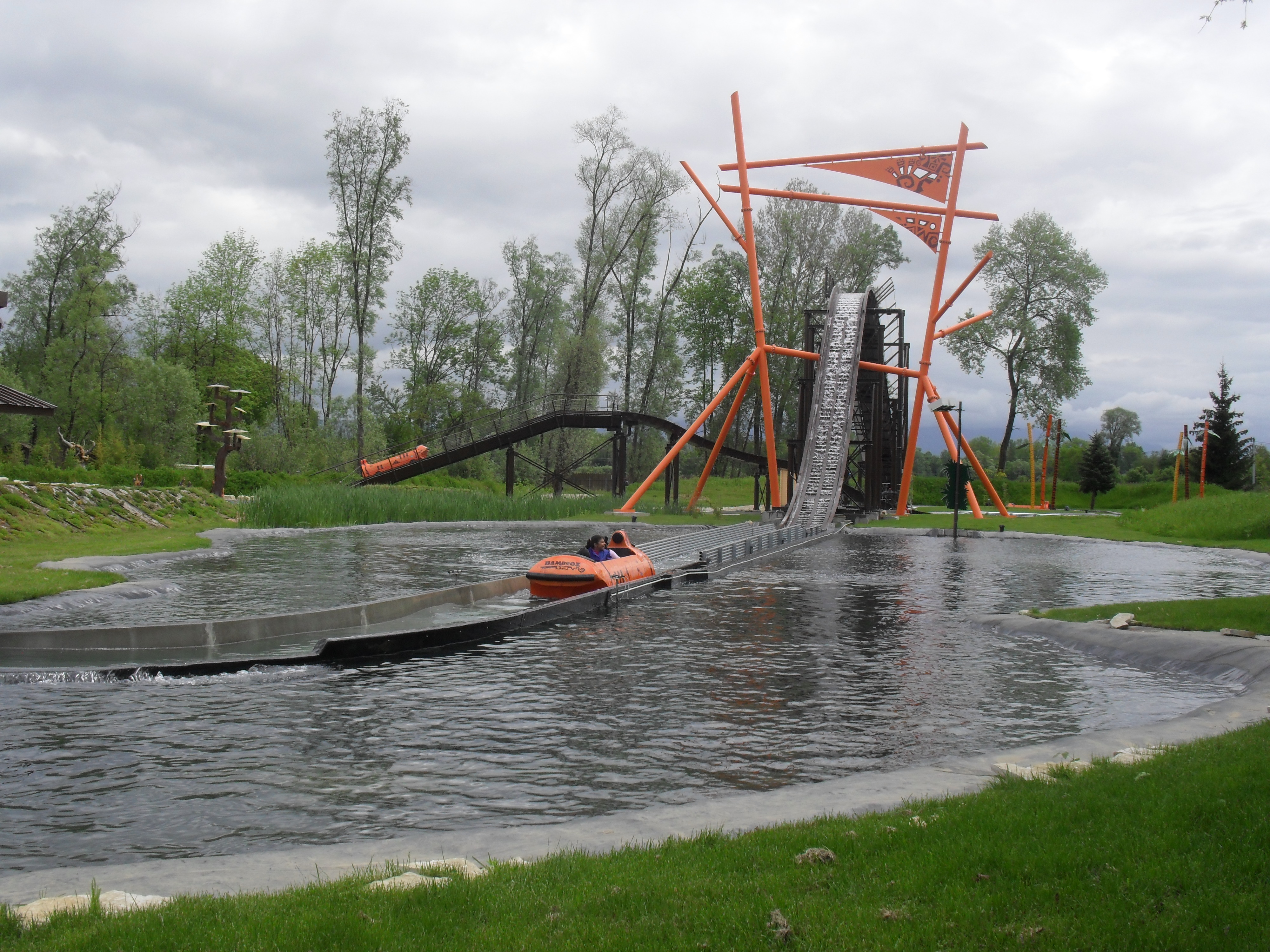 Walibi Rhône-Alpes log flumes